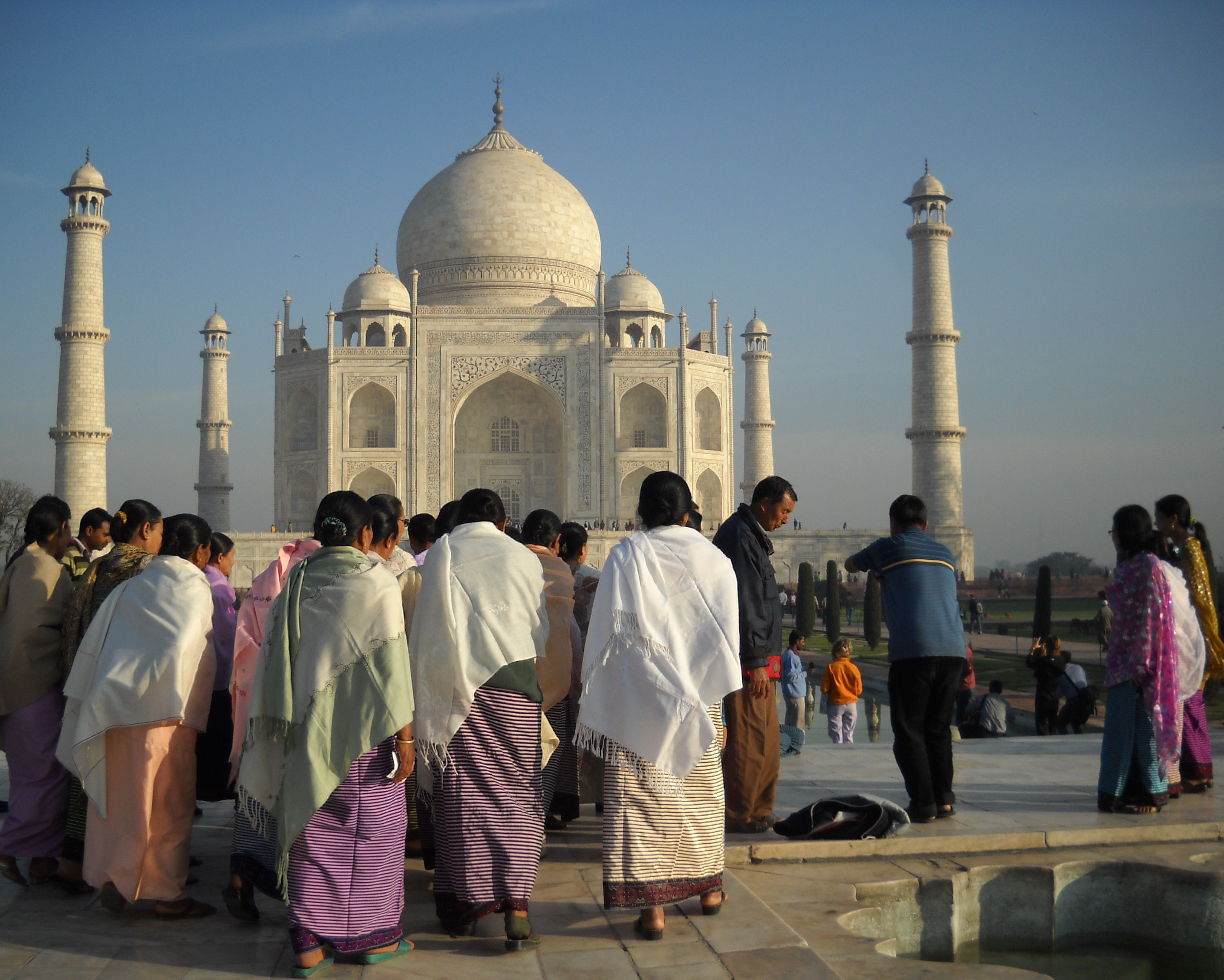 Female tourists from North-East India dressed in sarongs and shawls at the Taj Mahal